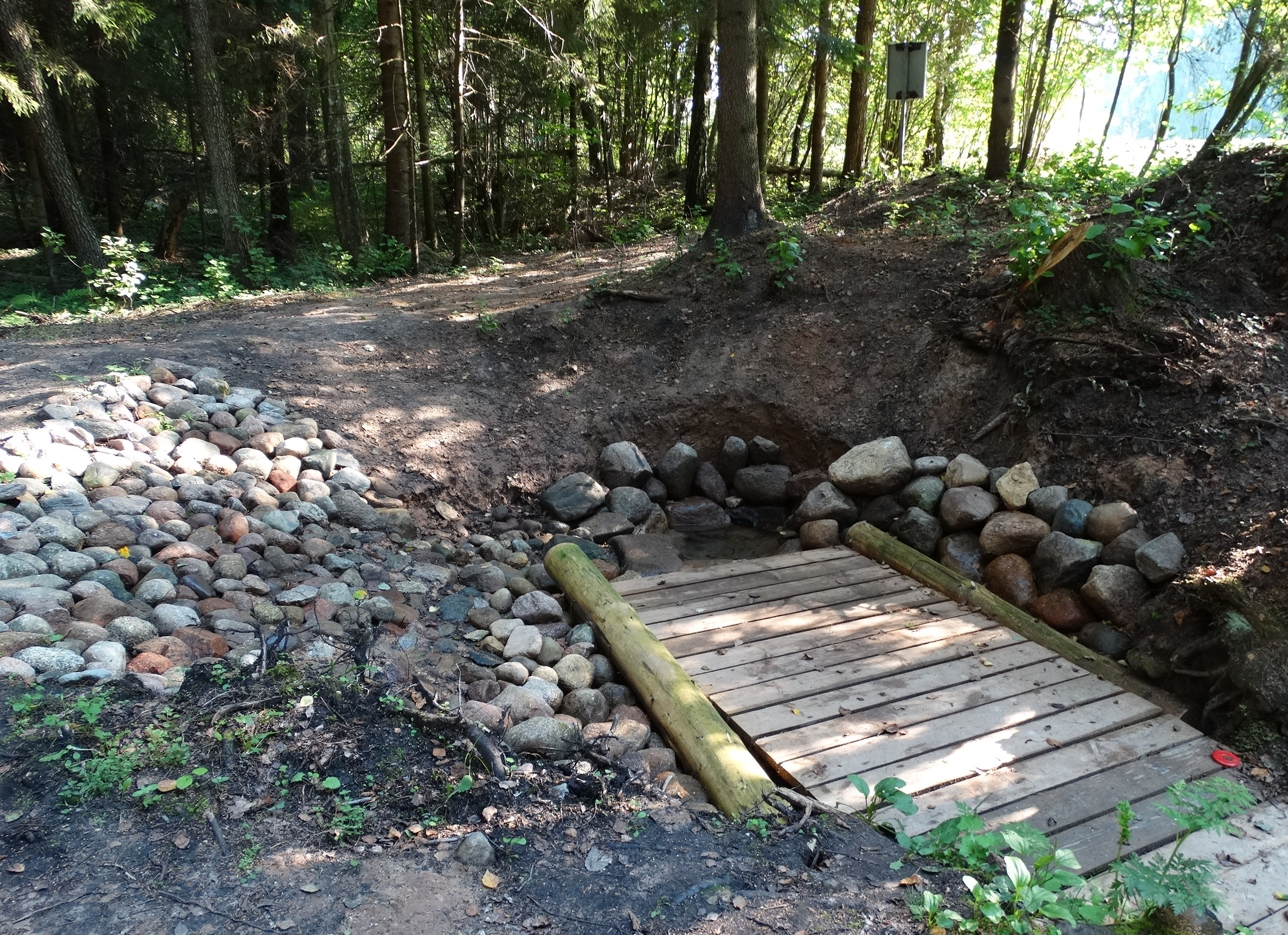 Varniškės Spring, Utena district, Lithuania